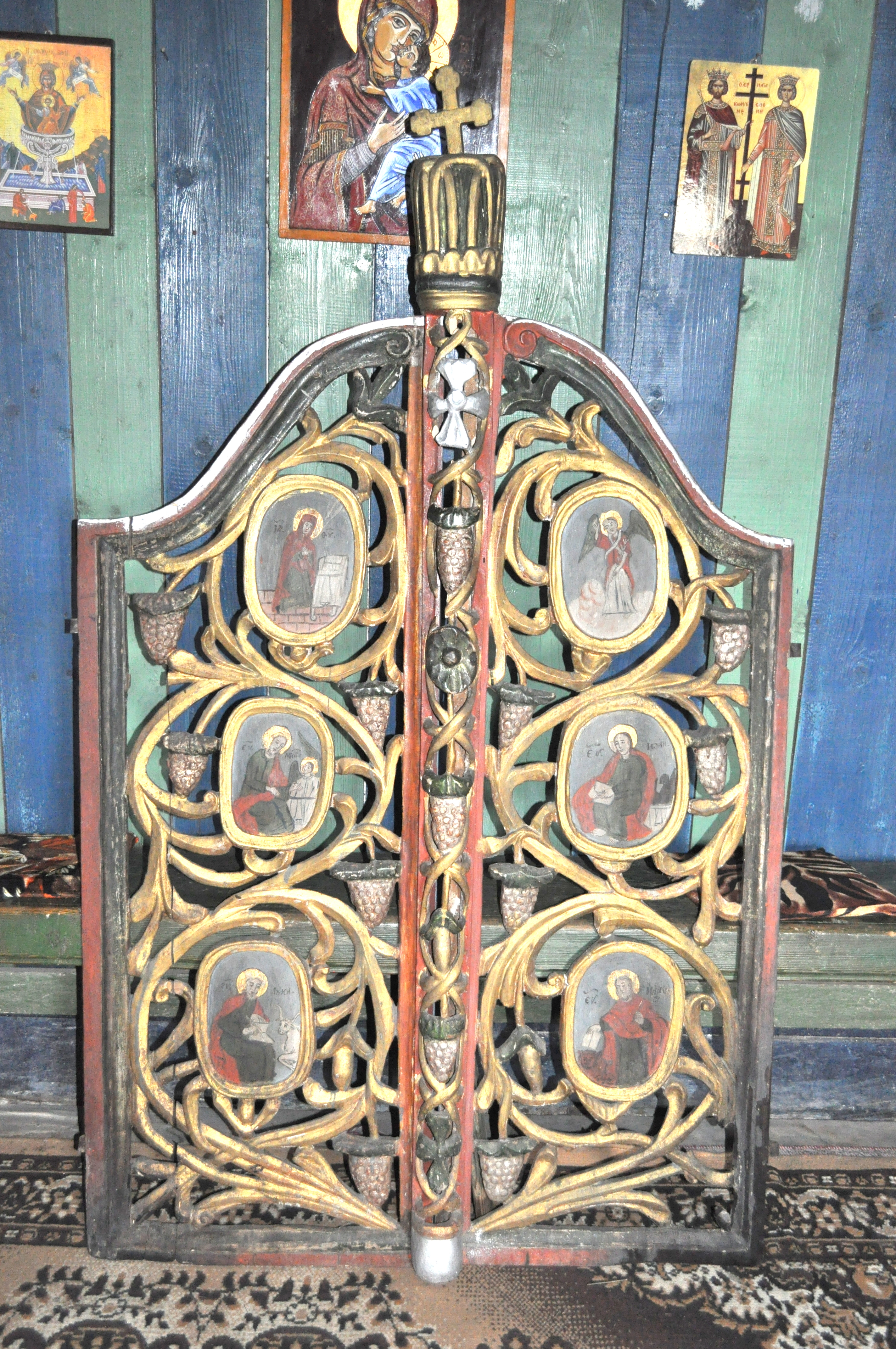 Wooden church in Mierţa, Sălaj county, Romania